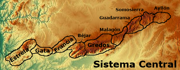 Main ranges in the Sistema Central (Spain & Portugal)